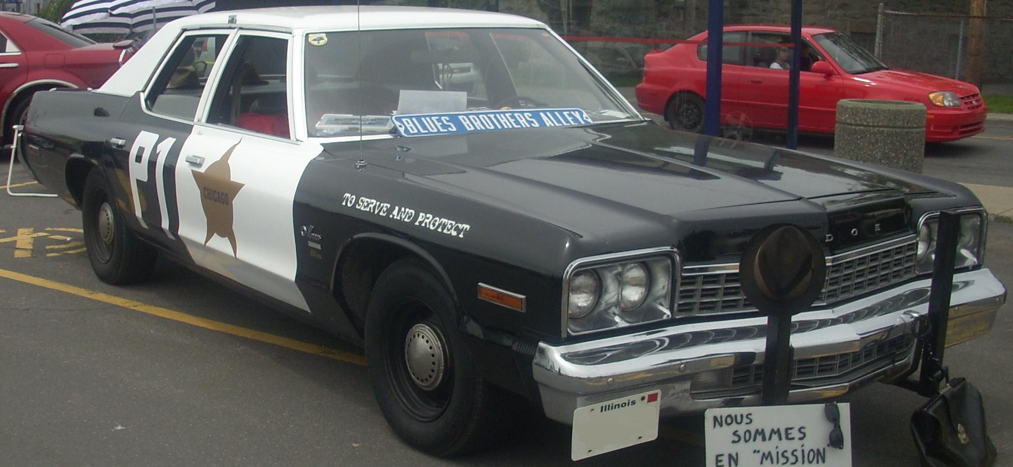 1975 Dodge Monaco 4-door sedan. Blues Brothers photographed in Salaberry De Valleyfield, Quebec, Canada at Rassemblement Mopar Valleyfield 2010.